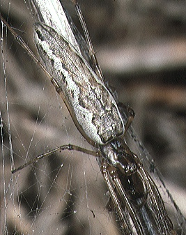 female Tetragnatha nitens from Okinawa.